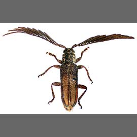 Piesarthrius marginellus. Common name: Feather-horned longicorn. Order: Coleoptera Family: Cerambycidae Genus: Piesarthrus Species: marginellas Please note that this image is avaiable at low resolution only. Please if you wish to download this image.